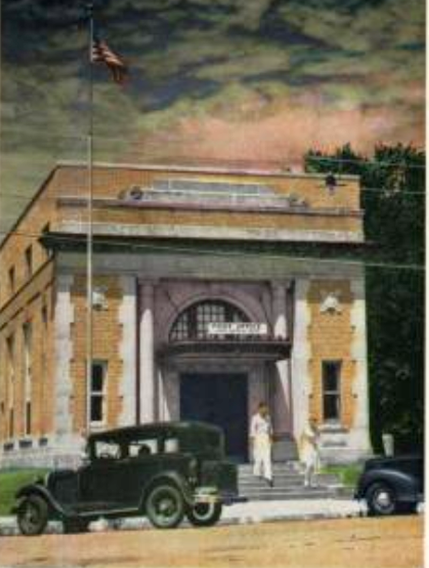 "Post Office, Long Beach, Mississippi. Post Office - Delightful climate, salt water sports and both salt and fresh water fishing make Long Beach, Miss., a fine vacation spot."